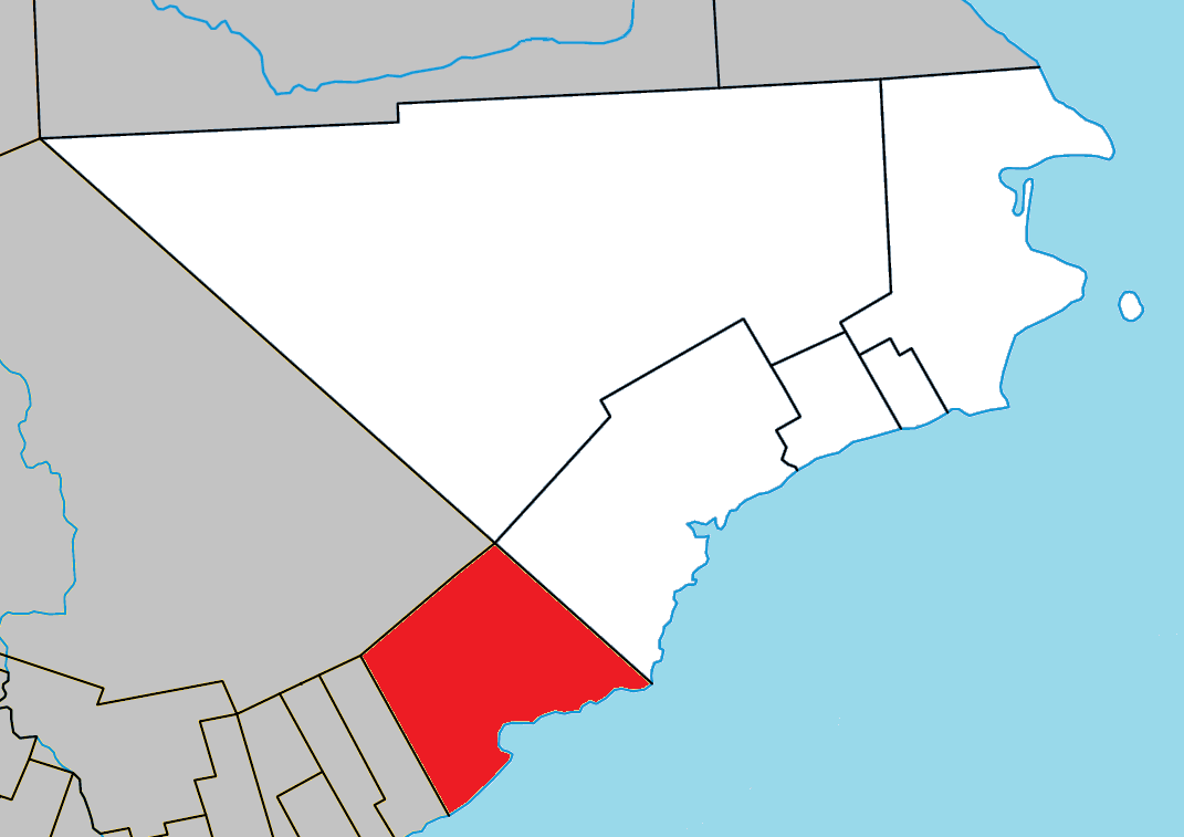 Location of Port-Daniel–Gascons, Quebec within Le Rocher-Percé Regional County Municipality.